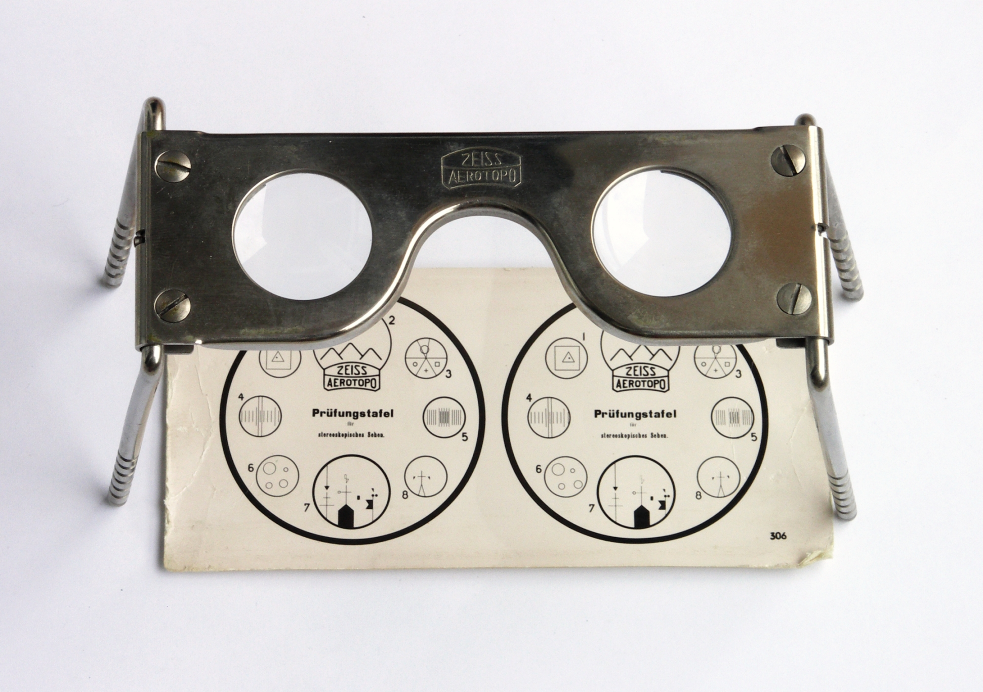 Pocket stereoscope from Zeiss with original test image. Unknown date, but probably from the fifties. This type of instrument was used by military to examine stereoscopic pairs of vertical aerial photographs.